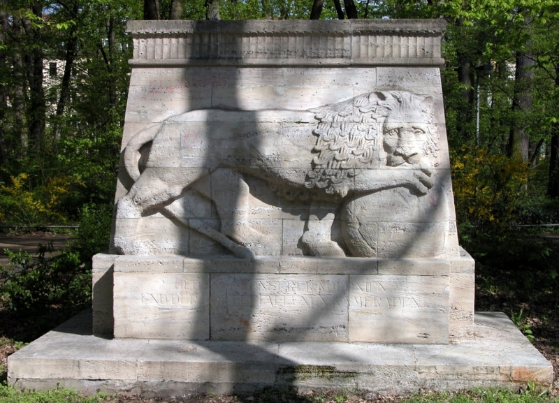 Brunswick, Germany: Colonial monument